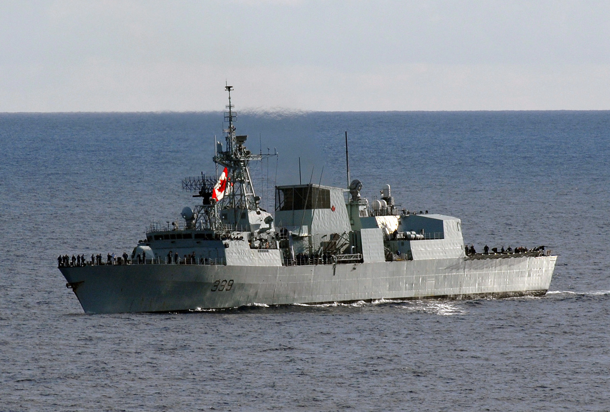 ATLANTIC OCEAN (Nov. 12, 2007) - Canadian frigate HMCS Charlottetown (FFH 339) sails alongside Nimitz-class aircraft carrier USS Harry S. Truman (CVN-75) during a maneuvering drill. Truman is en route to the Central Command area of responsibility as part of the ongoing rotation to support maritime security operations in the region.